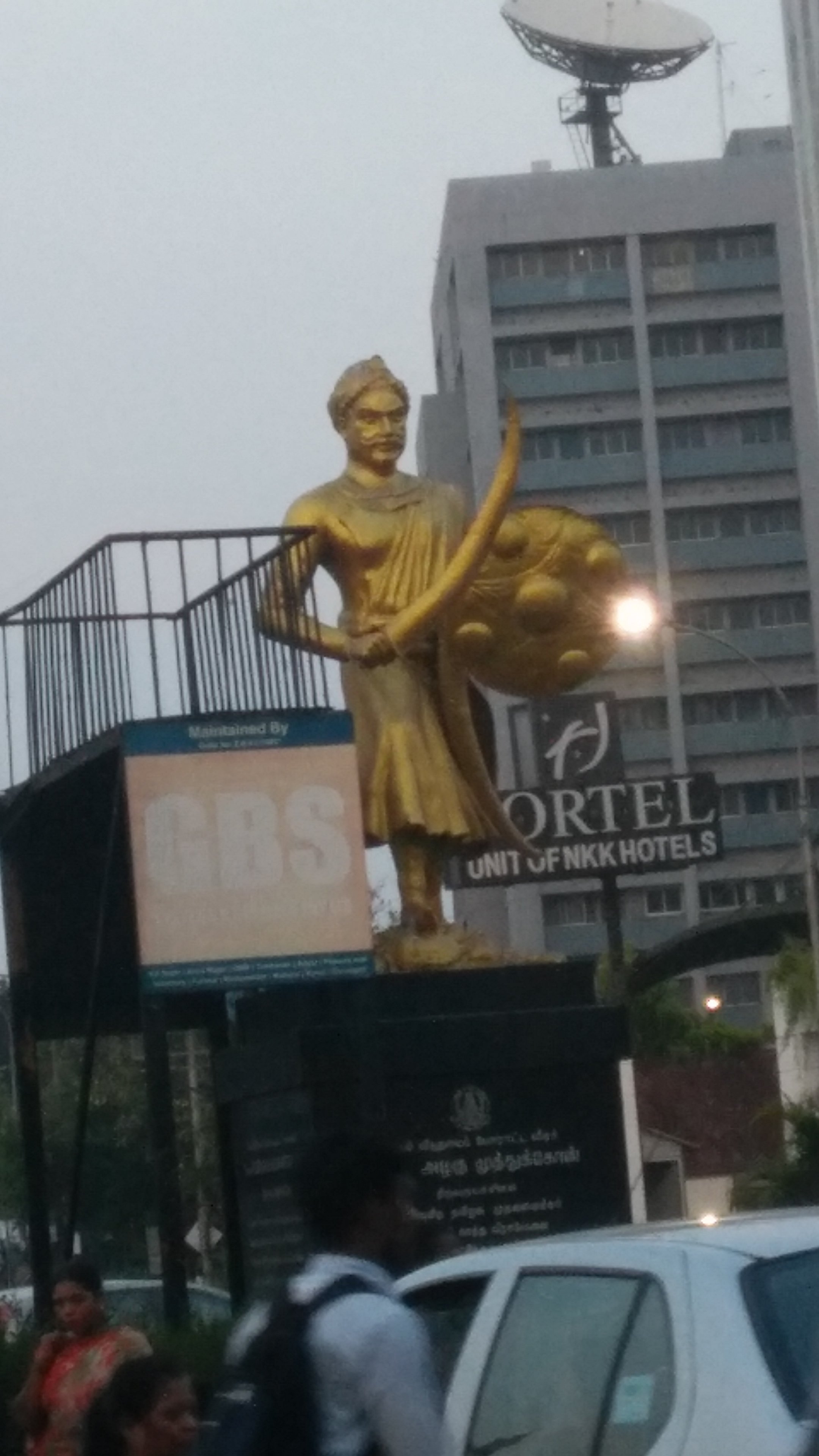 This is an statue of an freedom fighter. I capture this photo from my phone.